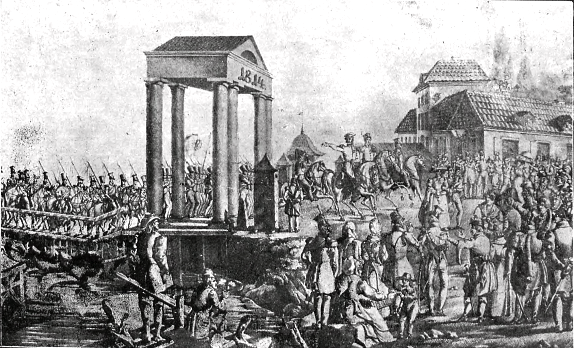 Triumfant enter to Warsaw of general Henryk Dembiński after campaign in Lithuania